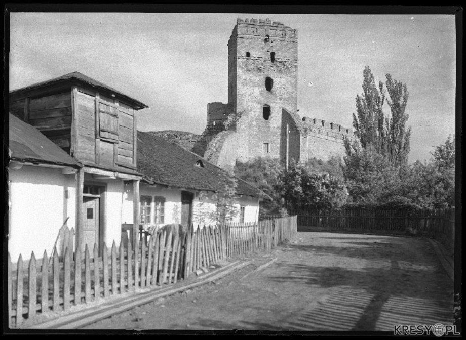 Zamkova Street in Lutsk 1925